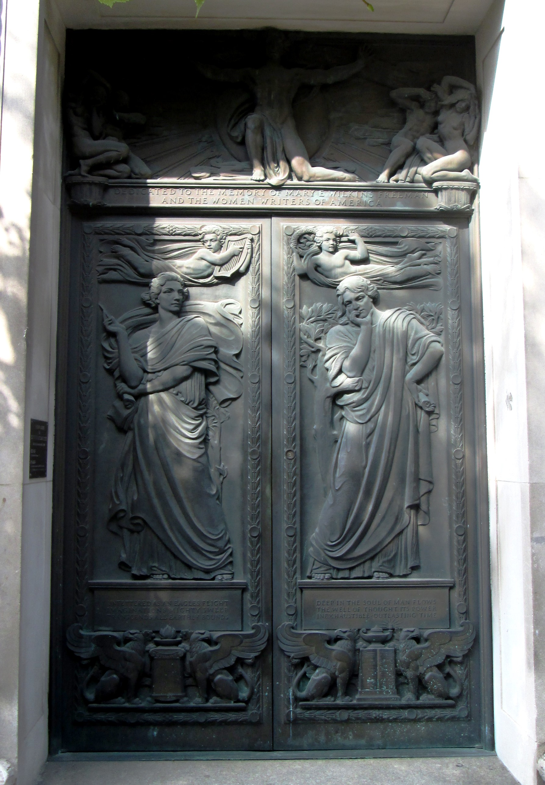 The administration building of the American Academy of Arts and Letters in Audubon Terrace in the Washington Heights neighborhood of Manhattan, New York City was built in 1921-23 and was designed by William M. Kendall, a member of the Academy, in the Anglo-Italian Renaissance style. The bronze doors on West 155th Street were designed by Academy member Adolph A. Weinman and are dedicated to the memory of Mary E. Wilkins Freeman and the women writers of the United States. (Sources: AIA Guide to NYC (5th ed.) and "Audubon Terrace Historic District Designation Report")